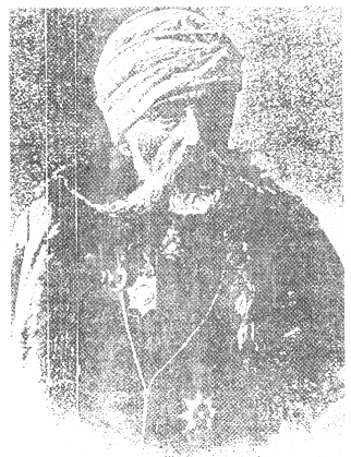 Smail-aga Čengić (1788 – 23 September 1840) was an Ottoman Bosniak Agha and general in the Ottoman Army